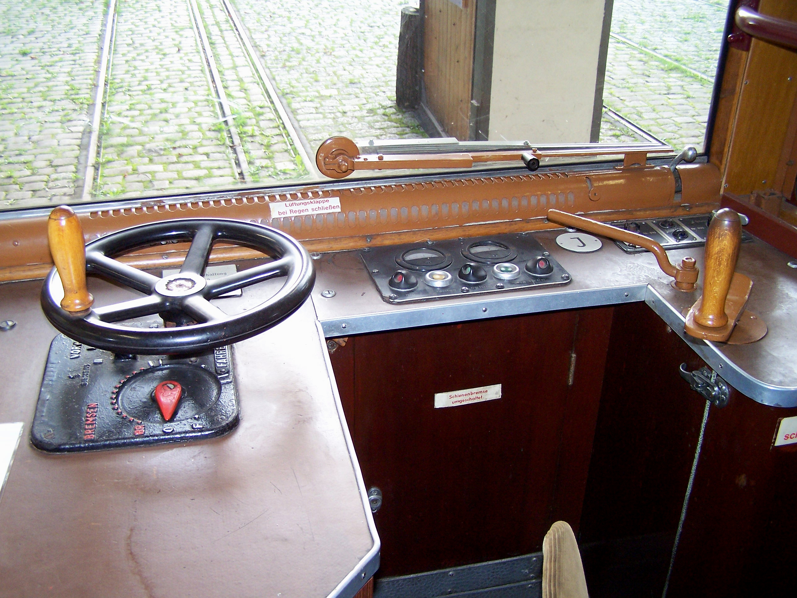 Tramway at Frankfurt am Main: Driver's cab of VGF type J (I) railcar 580 in the Frankfurt on Main Transport Museum in Frankfurt am Main--Schwanheim